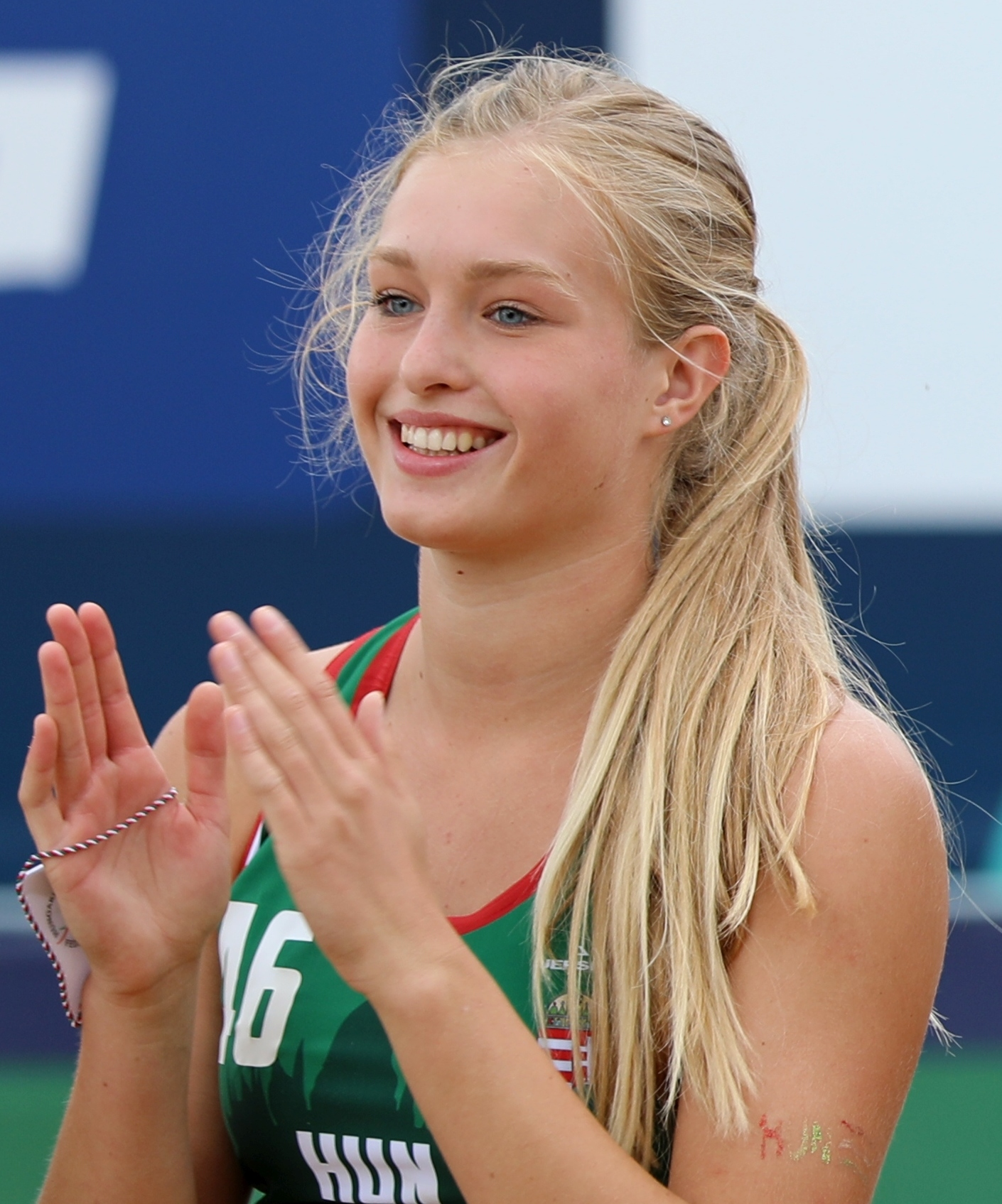 Beach handball Euro; Day 6: 7 July 2019 – Women's Final – Denmark-Hungary 2:0 (18:12, 23:22)